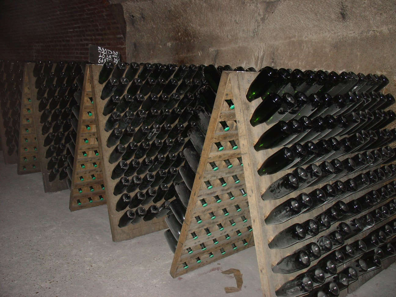 Champagne Cellar at Headquarters of Moët et Chandon in Epernay, France.